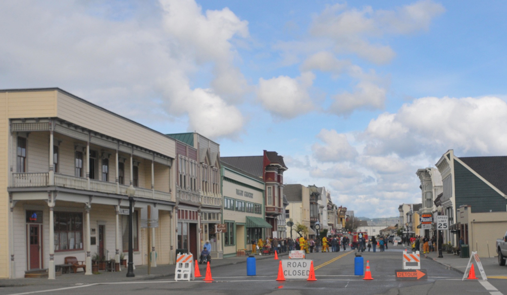 Ferndale, California Main Street Historical District. View from South to North during annual Ferndale Volunteer Fire Department "Firemen's Games."